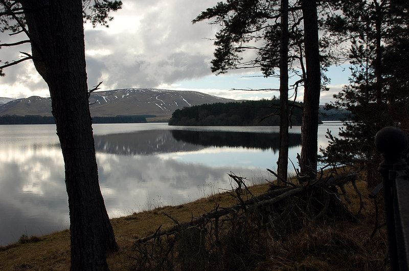 A tranquil day at Gladhouse Reservoir The largest of the three islands is in view here.